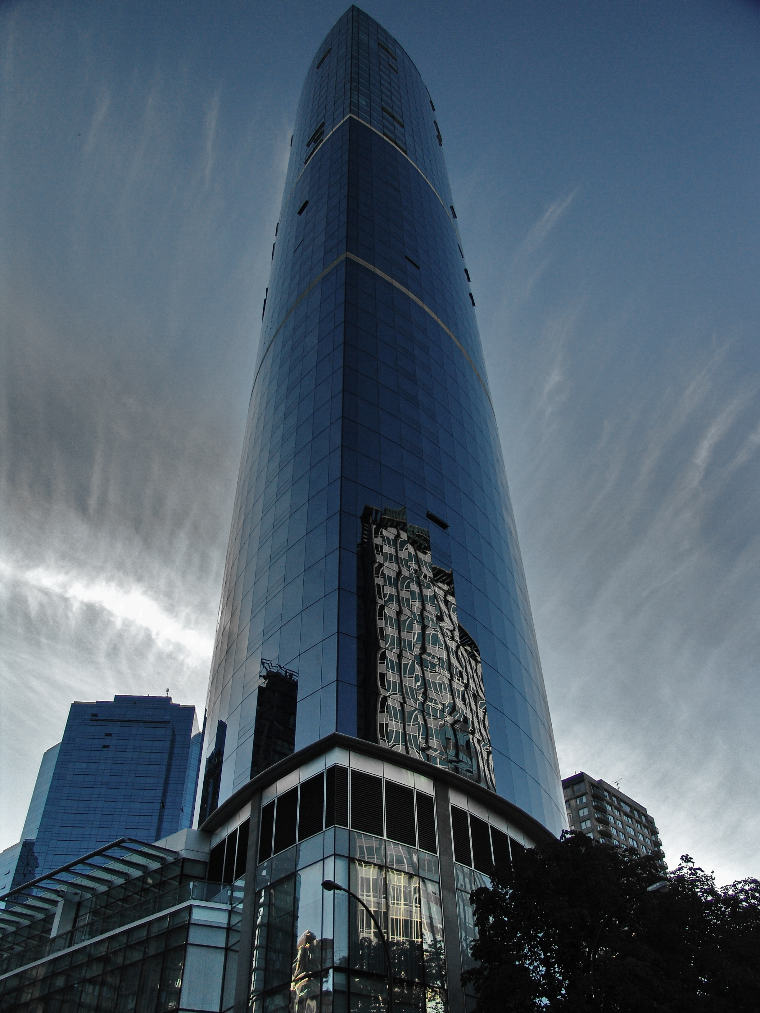 The Wall Centre in downtown Vancouver, British Columbia, Canada.2004-09-12 19-02-34 4539a